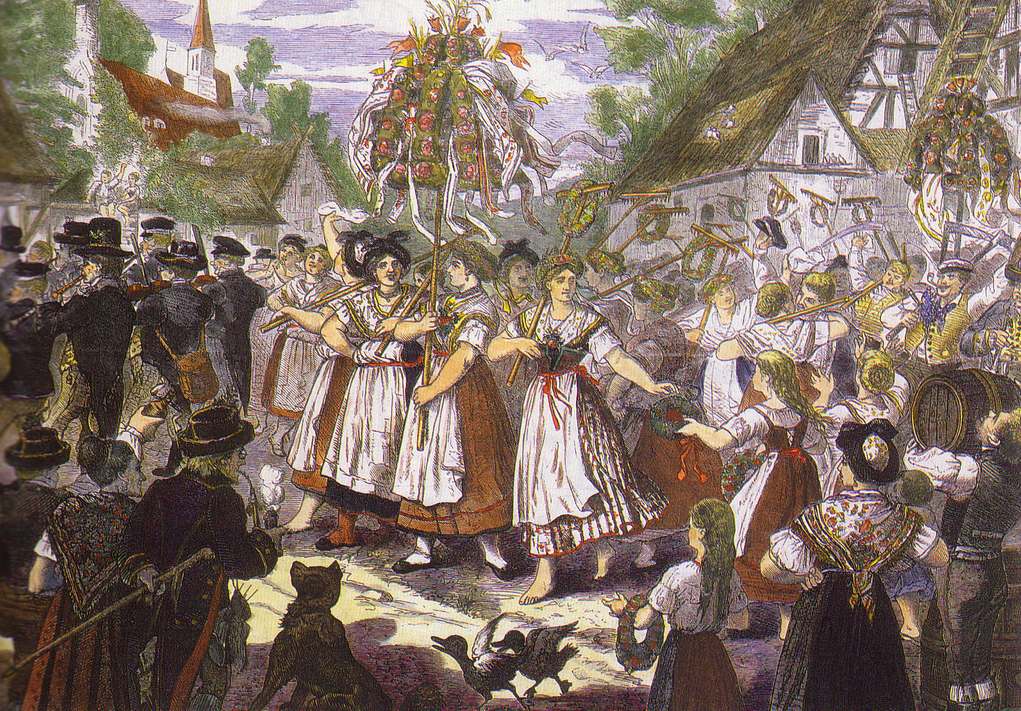 Description: Harvest Festival, engraving after a drawing by Carl Huth Publisher and date: Illustrite Zeitung, vol. xxxix, 24 August 1867 Source: Scanned from The Bartered Bride, Royal Opera House programme, December 10, 1998, p. 29